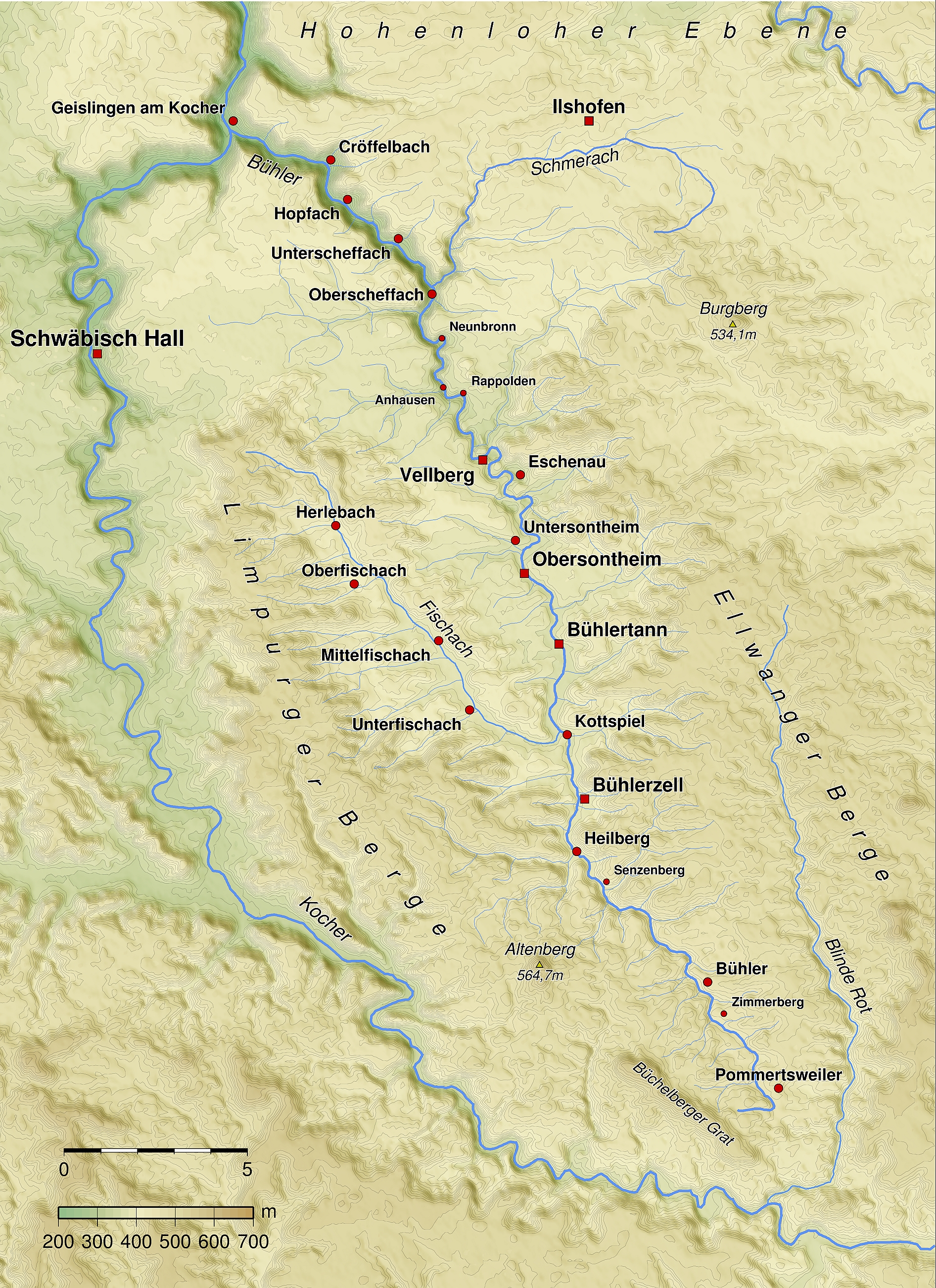 Map of the river Bühler including most of its tributaries